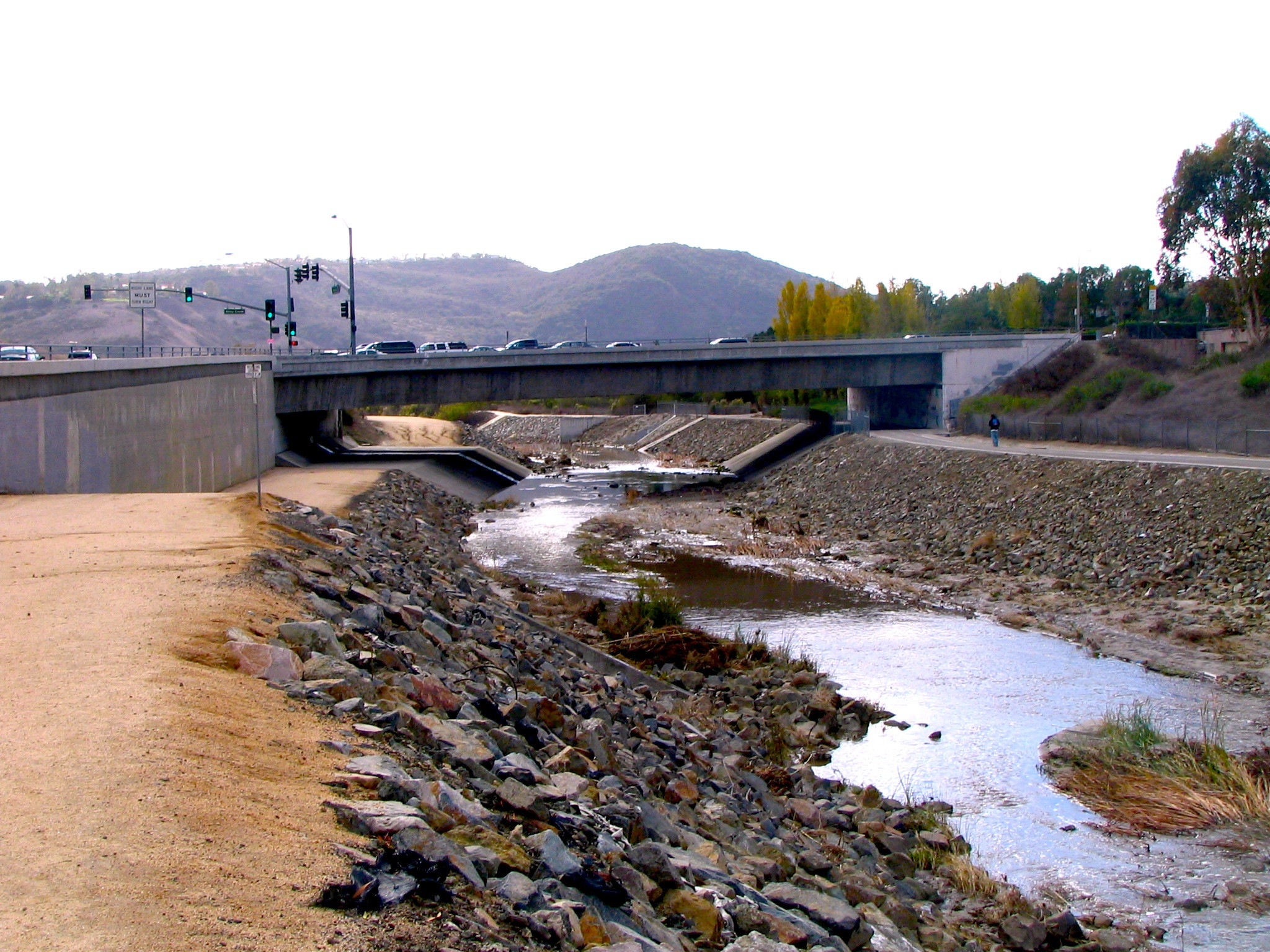 Aliso Creek flowing under a bridge.